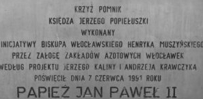 Plaque on the Cross monument of priest Popiełuszki in Włocławek near the dam at the place where the body of the murdered Polish priest was martyred for the faith.